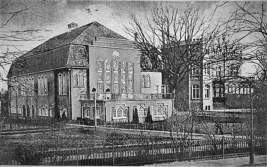 The Hindenburghaus in Lübeck